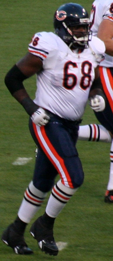 Frank Omiyale